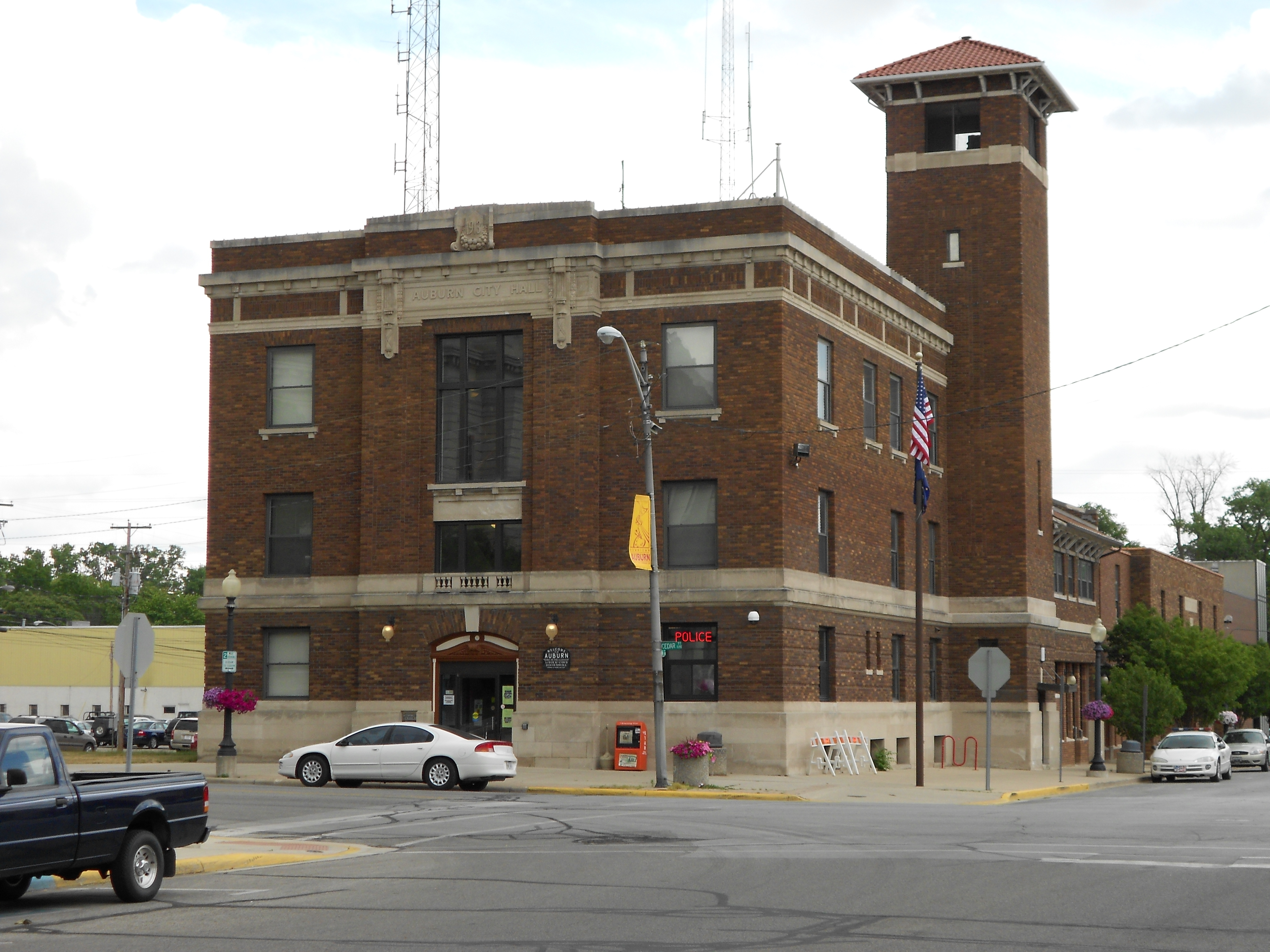 This is an image of the City Hall inAuburn, Indiana, USA. The building was completed in 1913.